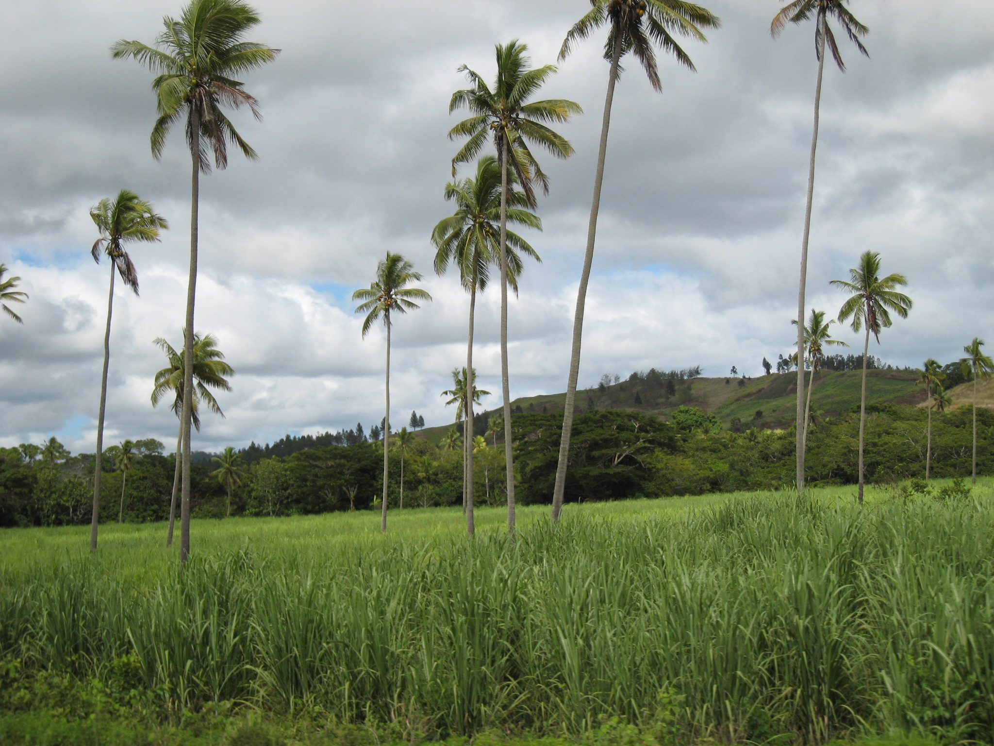 10 Minutes west of Labasa, Vanua Levu, Fiji